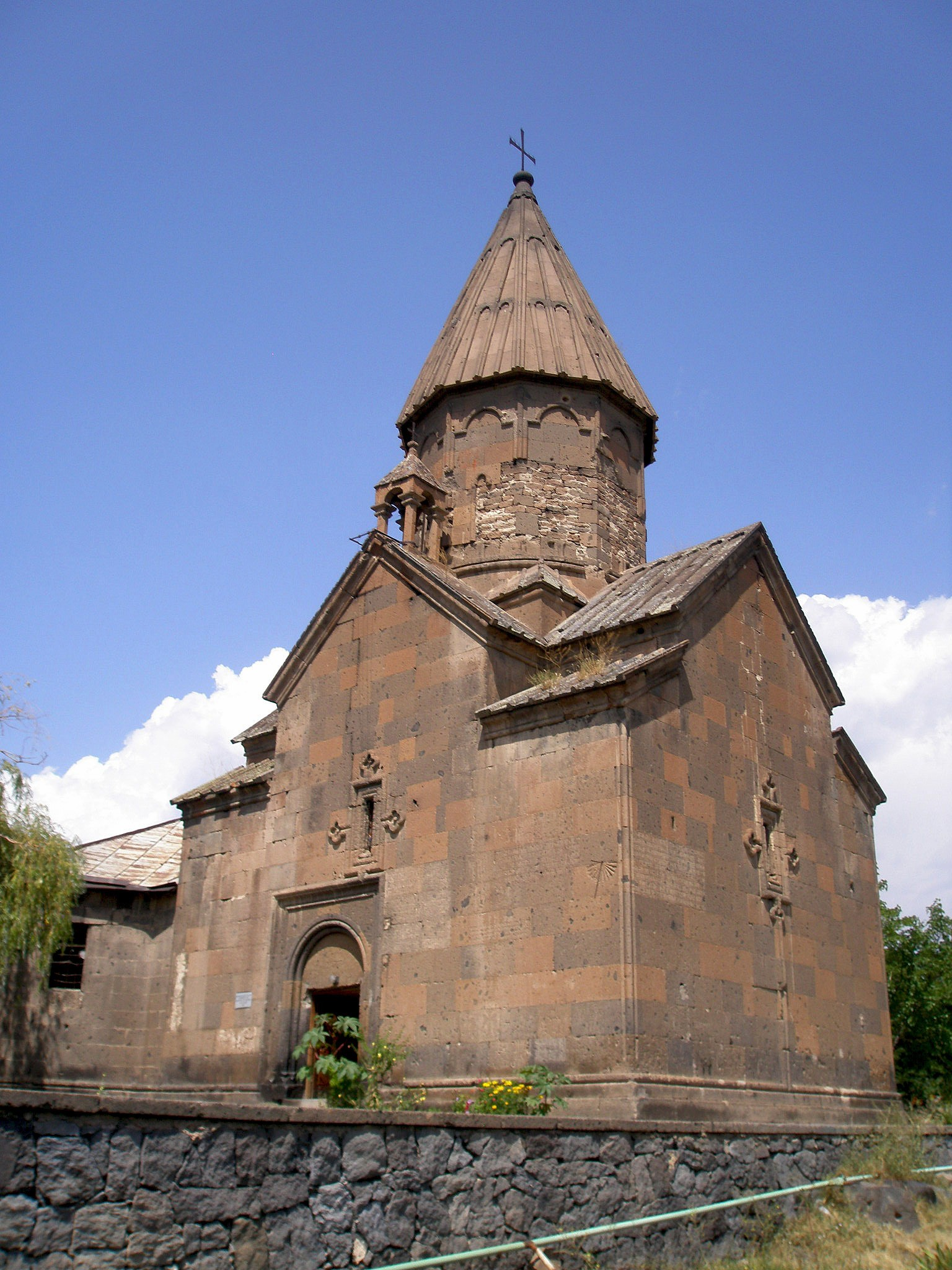 S. Mariane Church at Ashtarak, Armenia.